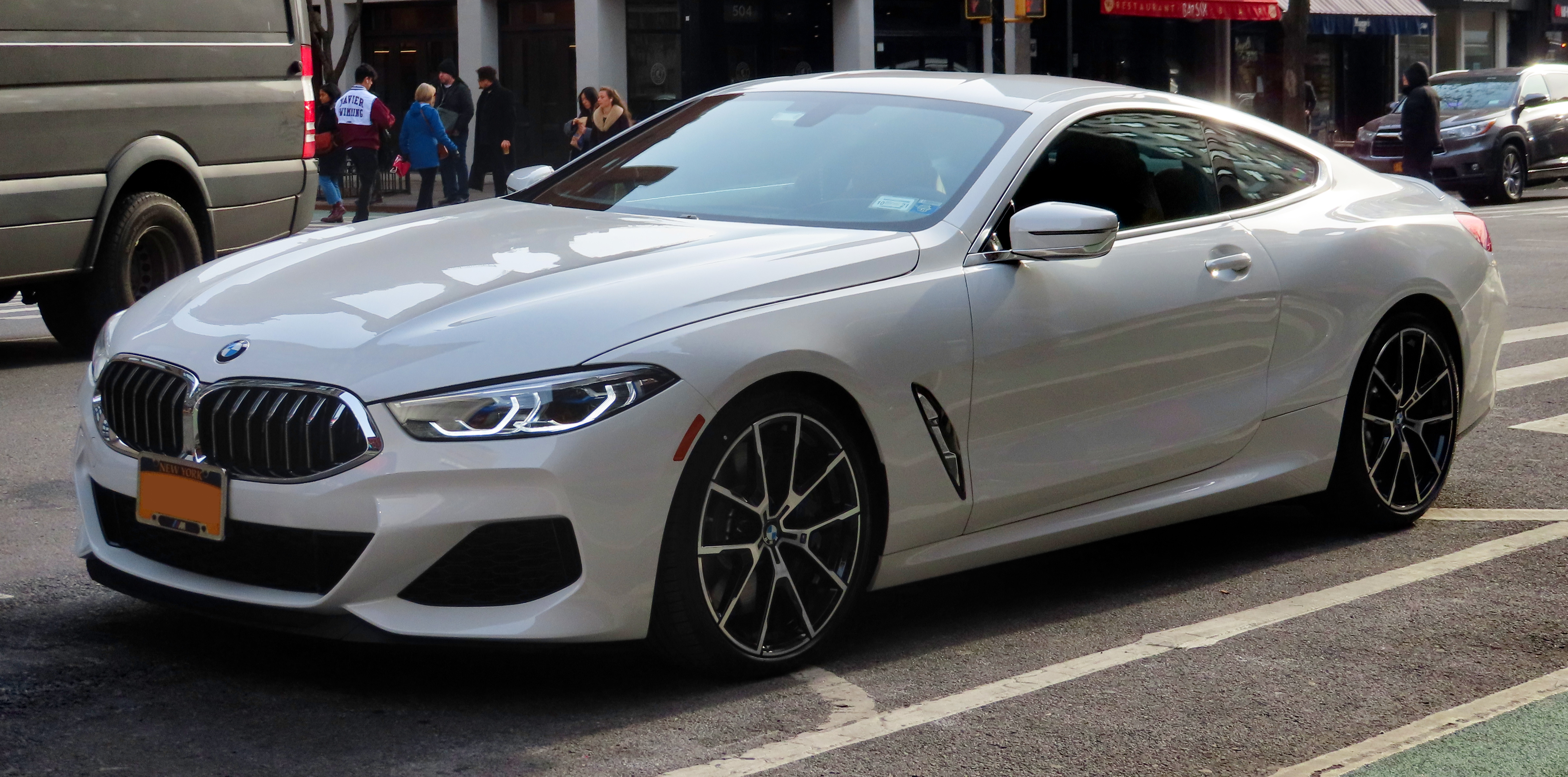 A 2019 BMW M850i photographed in Greenwich Village, Manhattan, New York, USA